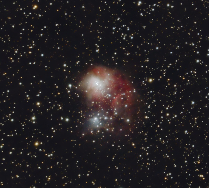 NGC 1931 Difuse nebula and cluster taken with Celestron 9.25 and Modified Canon 350D